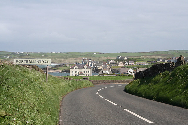 The secluded Portballintrae.